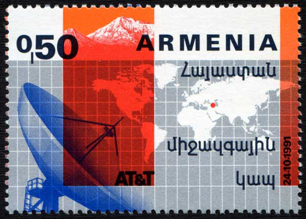 Stamp of Armenia